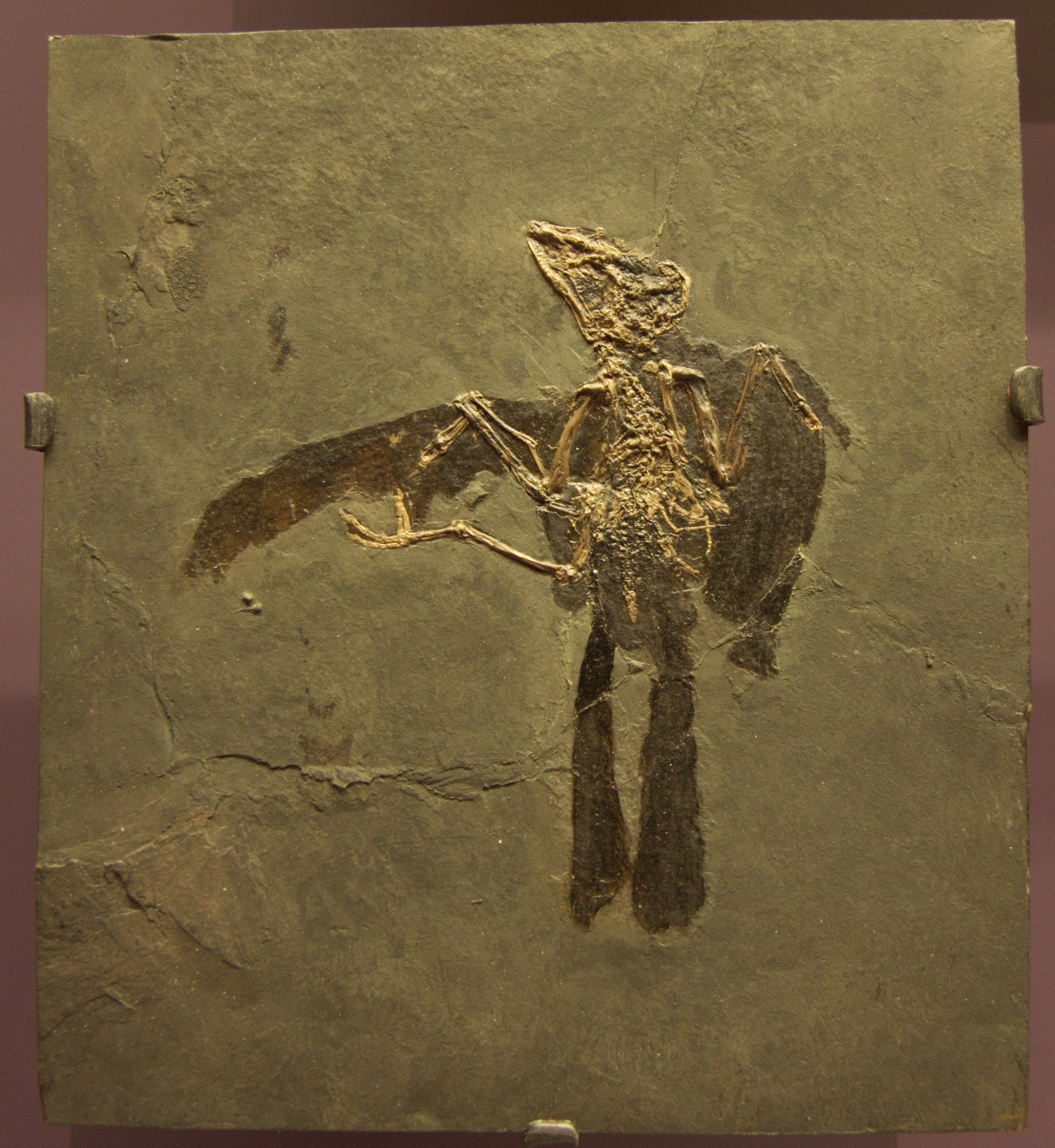 Fossile d'oiseau forestier. The making of this document was supported by Wikimédia France. (Submit your project!)